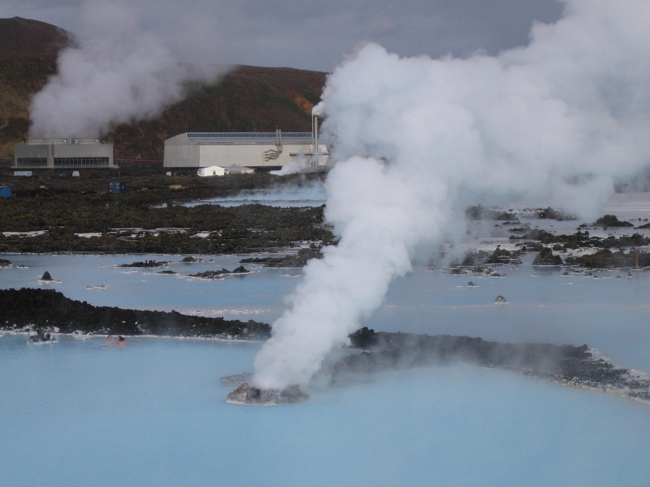 Iceland geothermal facilities near Grindavík (2005-05)